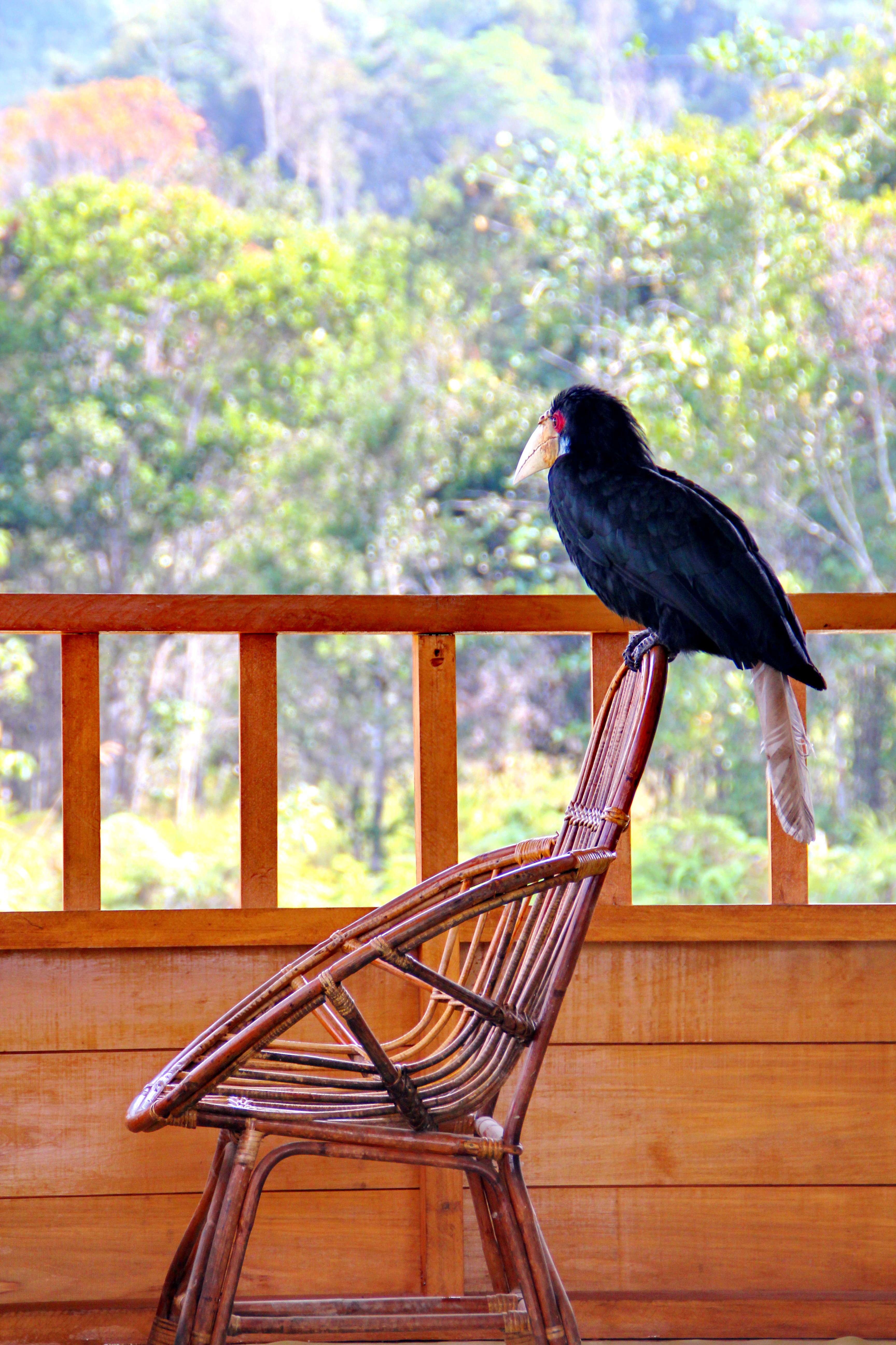 Turo, the wreathed hornbill in Bario. The Bario villagers have developed an affection towards the bird.